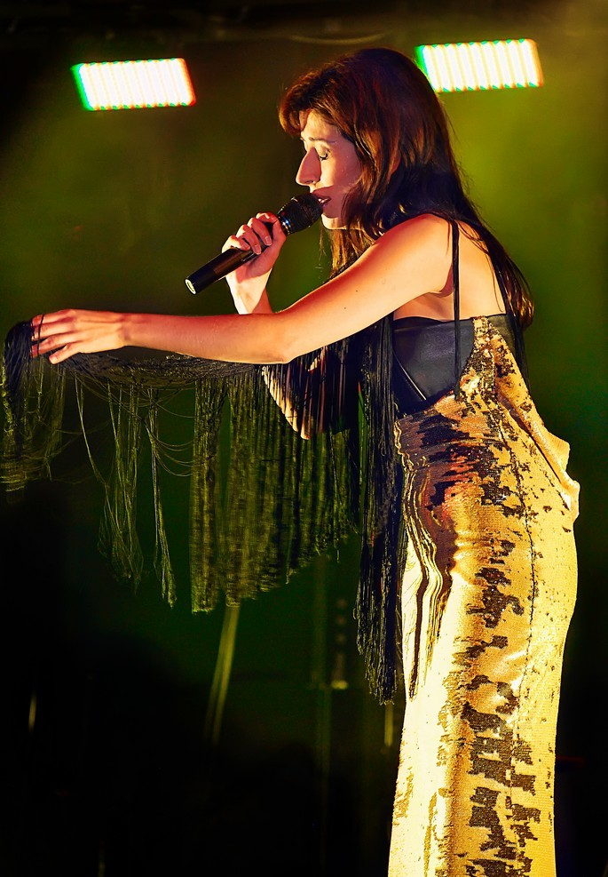 Ana Moura